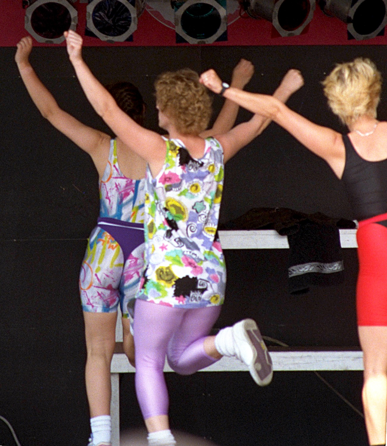 A public demonstration of aerobic exercises